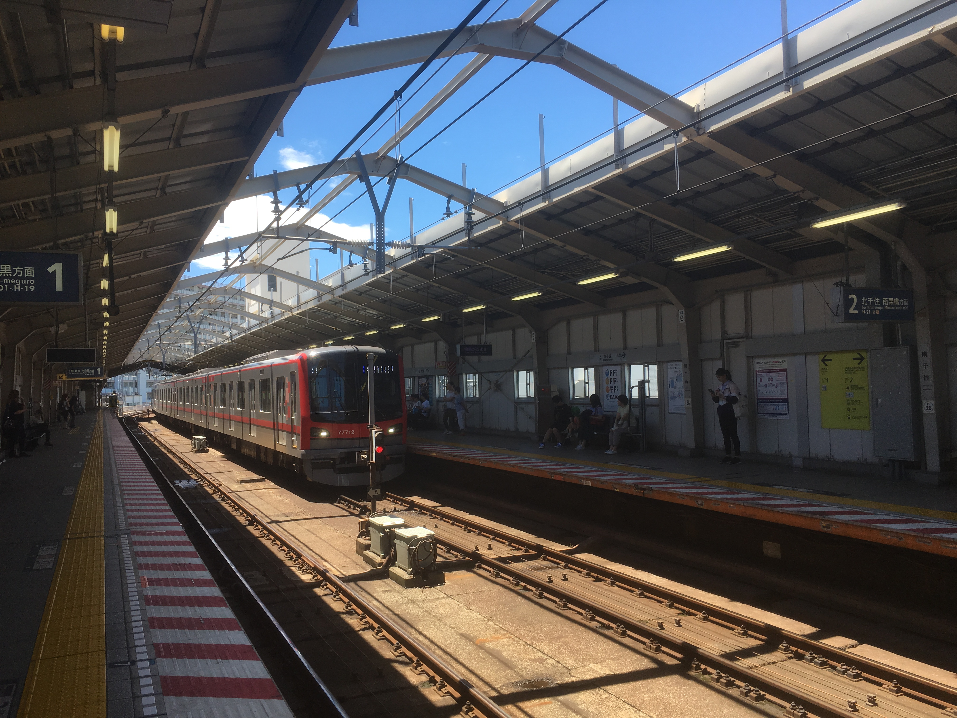 日比谷線、南千住駅のホーム (Hibiya Line, Minami-Senju Station platform)